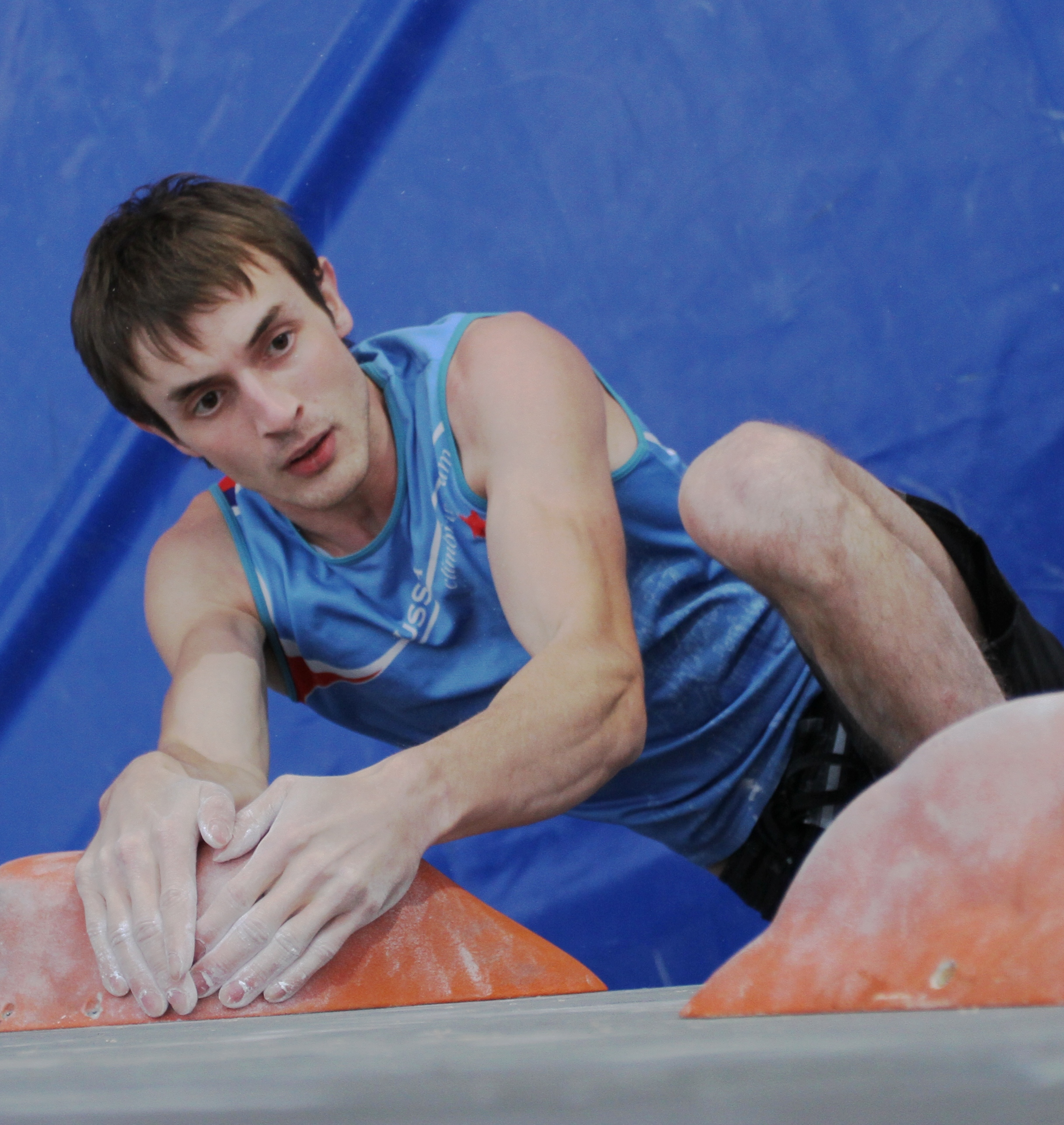 Dmitrii Sherafutdinov, RUS at the Boulder Worldcup 2012